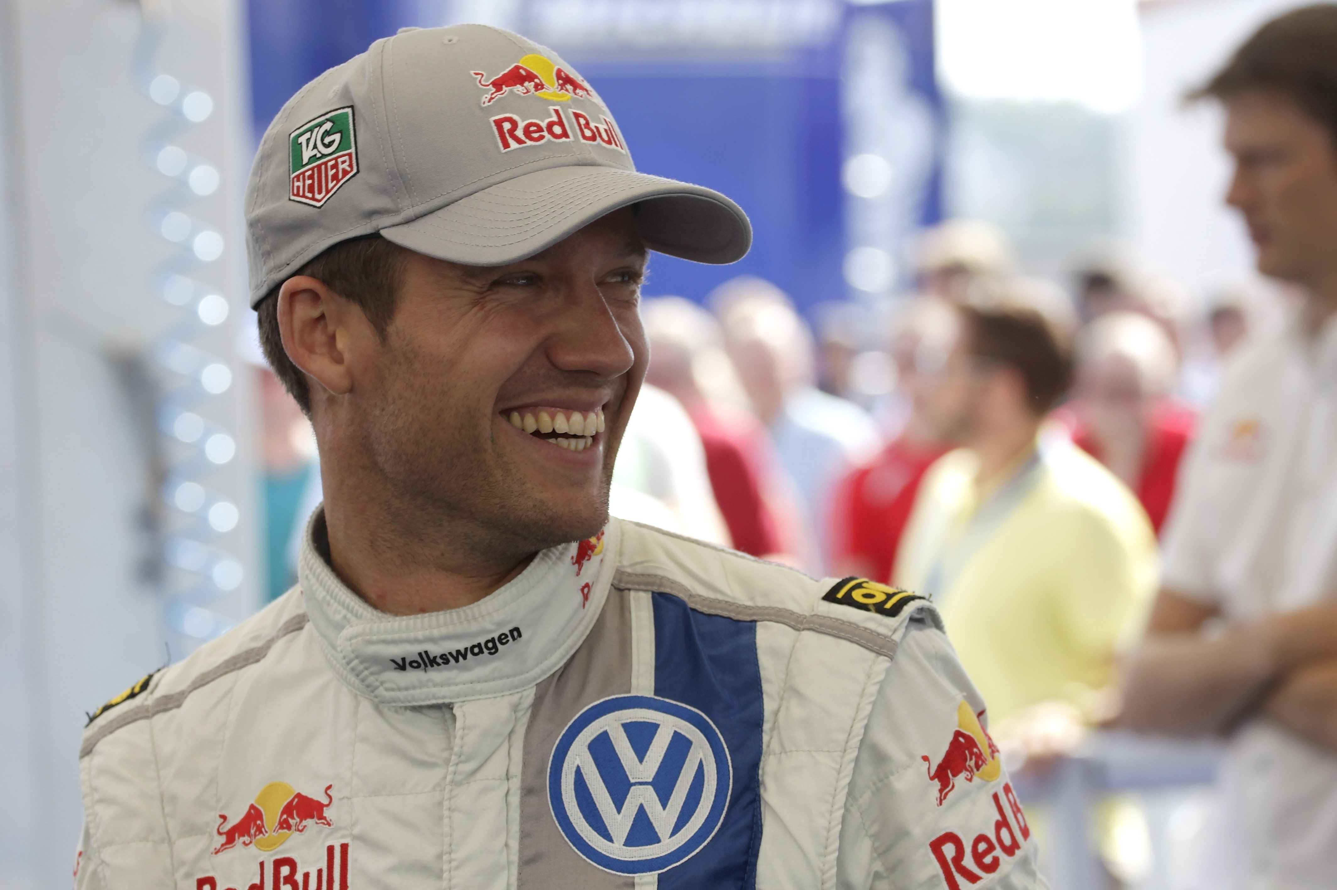 Sébastien Ogier at the 2013 Rally Finland. The eighth rally of the 2013 World Rally Championship.